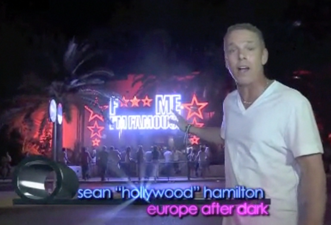 Hamilton hosting Europe After Dark in Ibiza Spain.